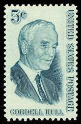 1964 stamp honoring Cordell Hull